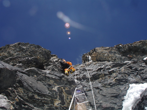 Carl Drew climbing ladders on Abruzzi Spur. Photo by Abdul Aziz